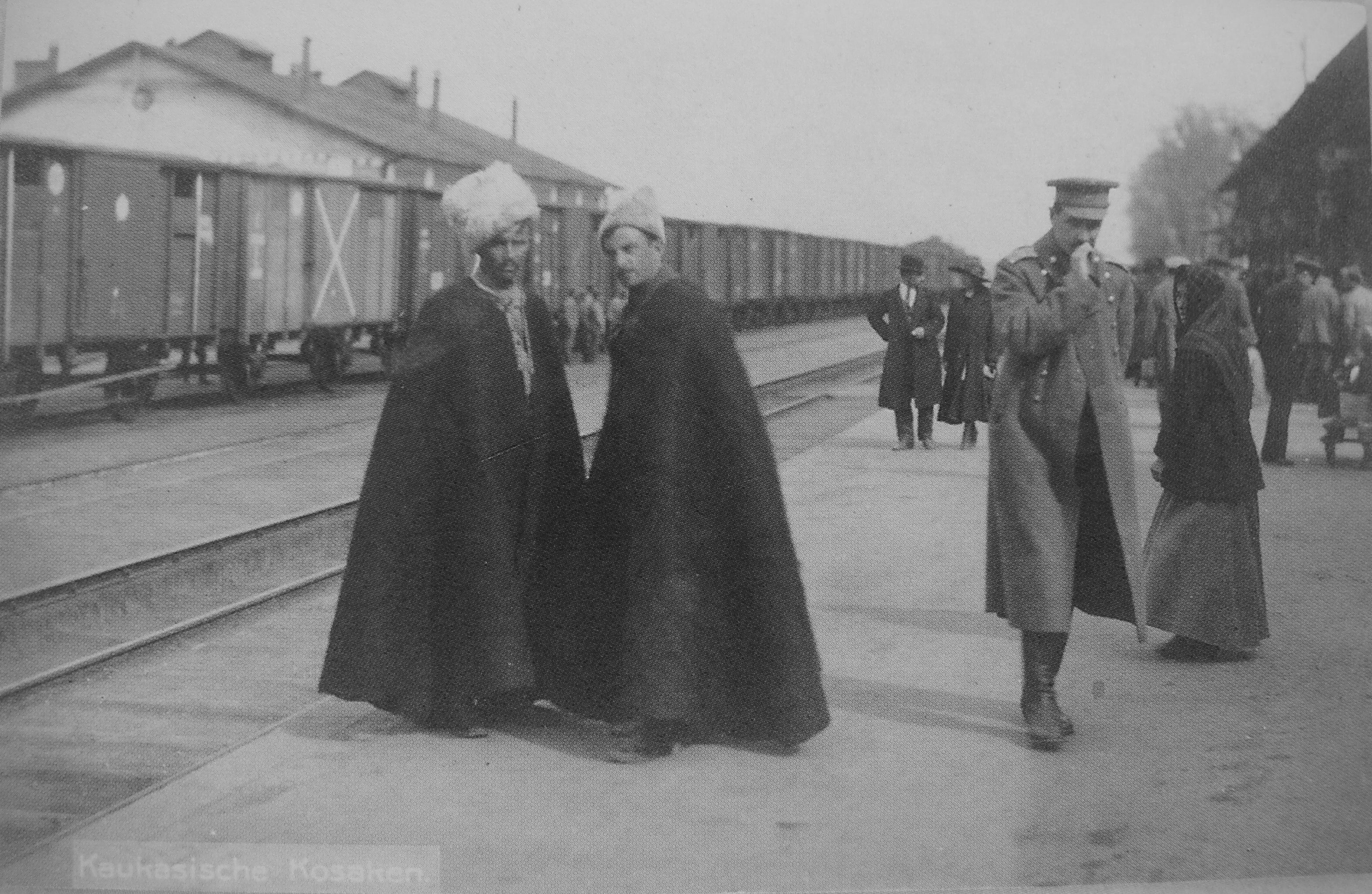 Odessa Railway Station. White Army officer and cossac. Picture made circa winter 1919-1920, before fall of white Odessa on February 6th 1920